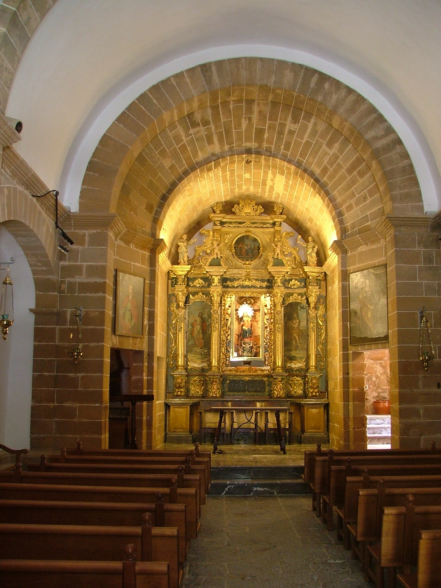 Church of Victoria's hermitage in Alcúdia, Mallorca, Spain